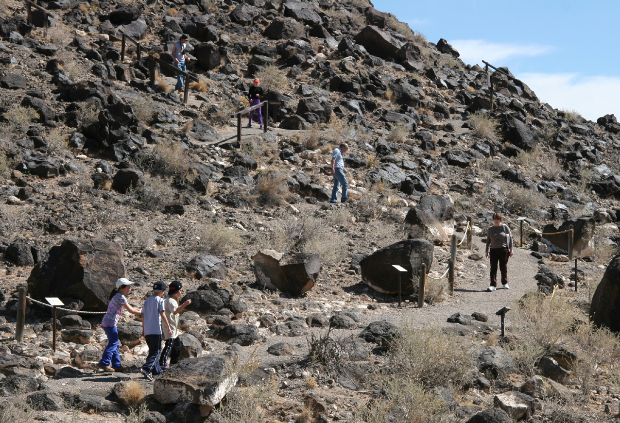 Trail in the Boca Negra Canyon. The best trail in the Petroglyph National Monument